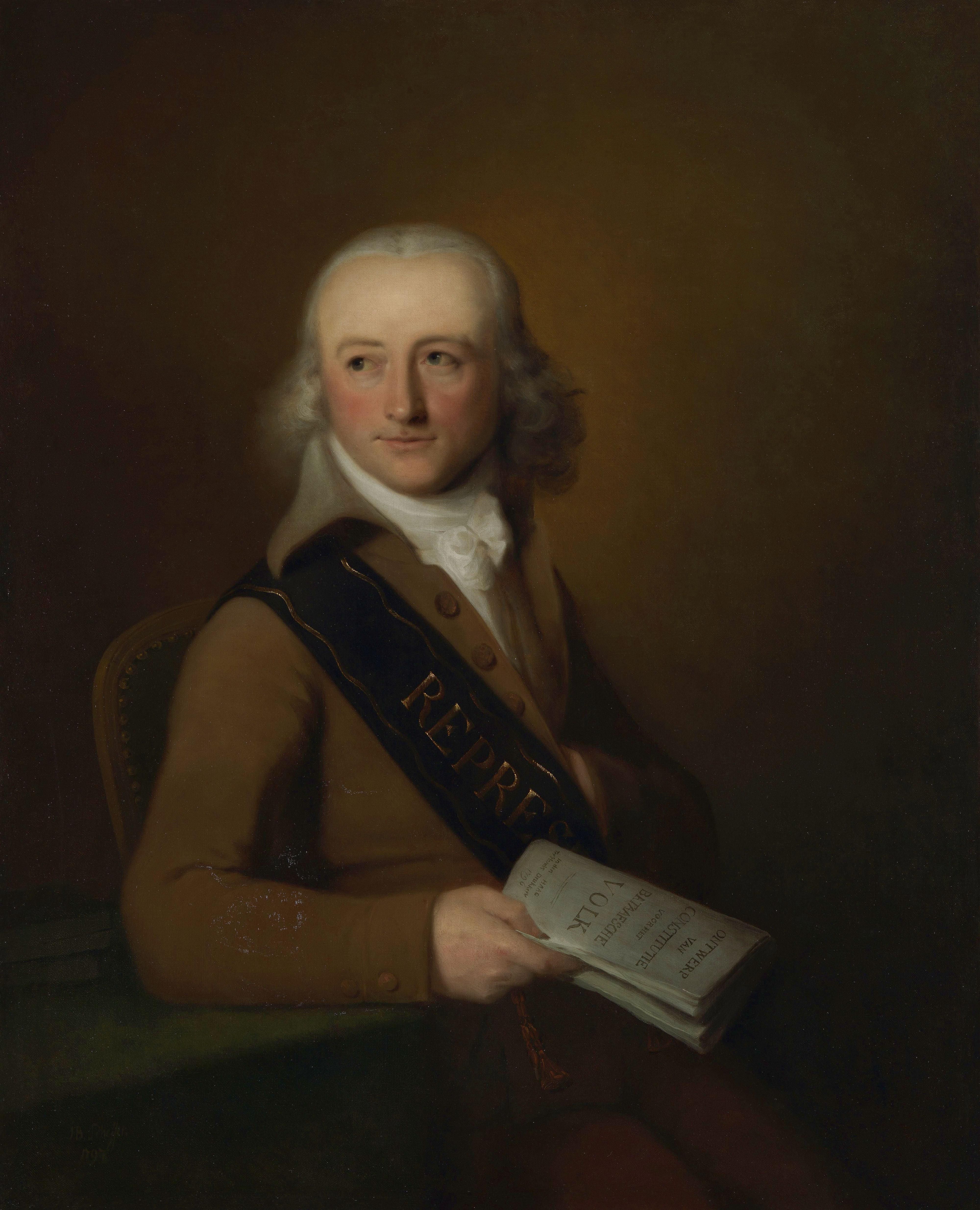 Dr Leonardus van der Voort (1762-1809), representant of the Batavian Republic